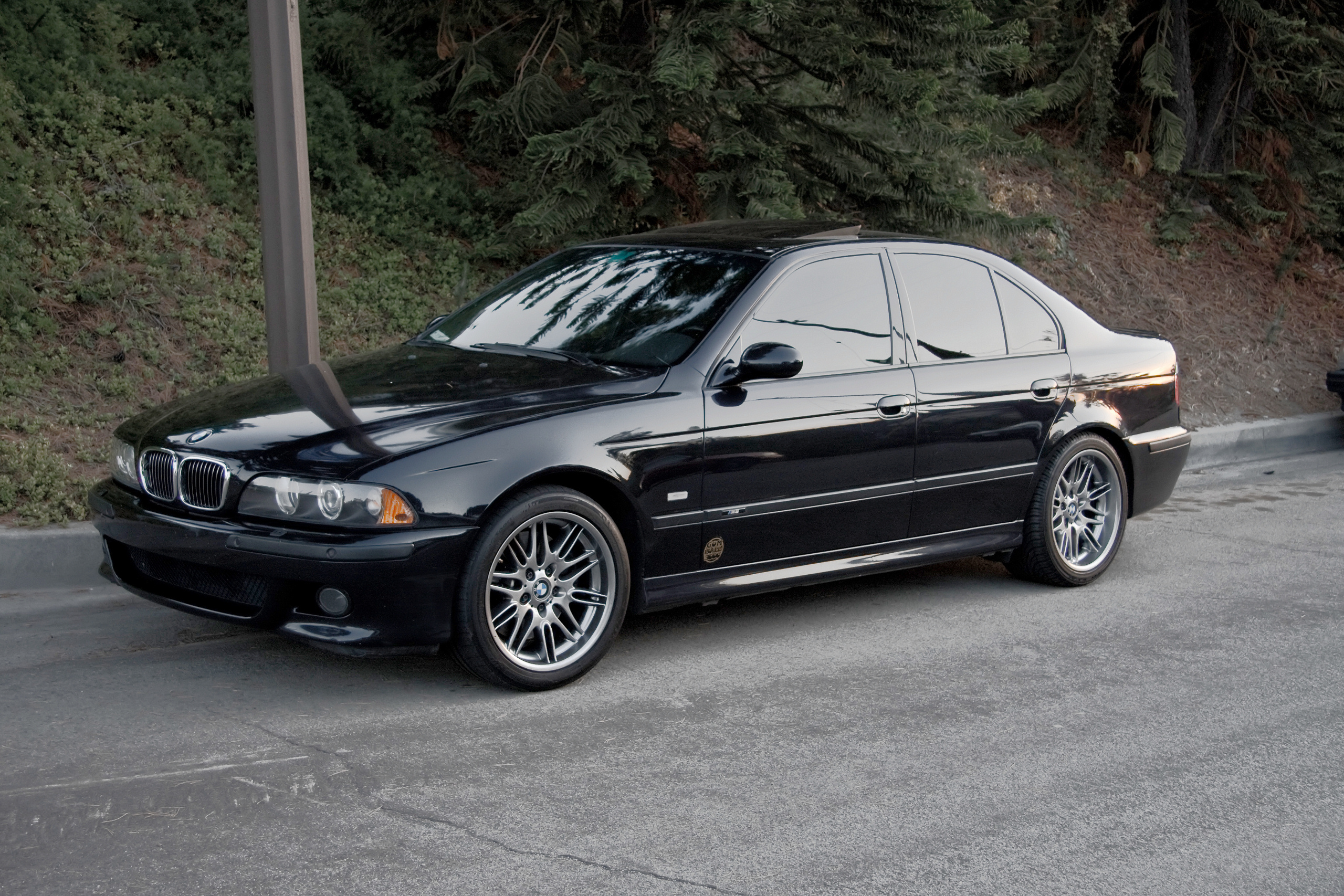 BMW E39 M5.